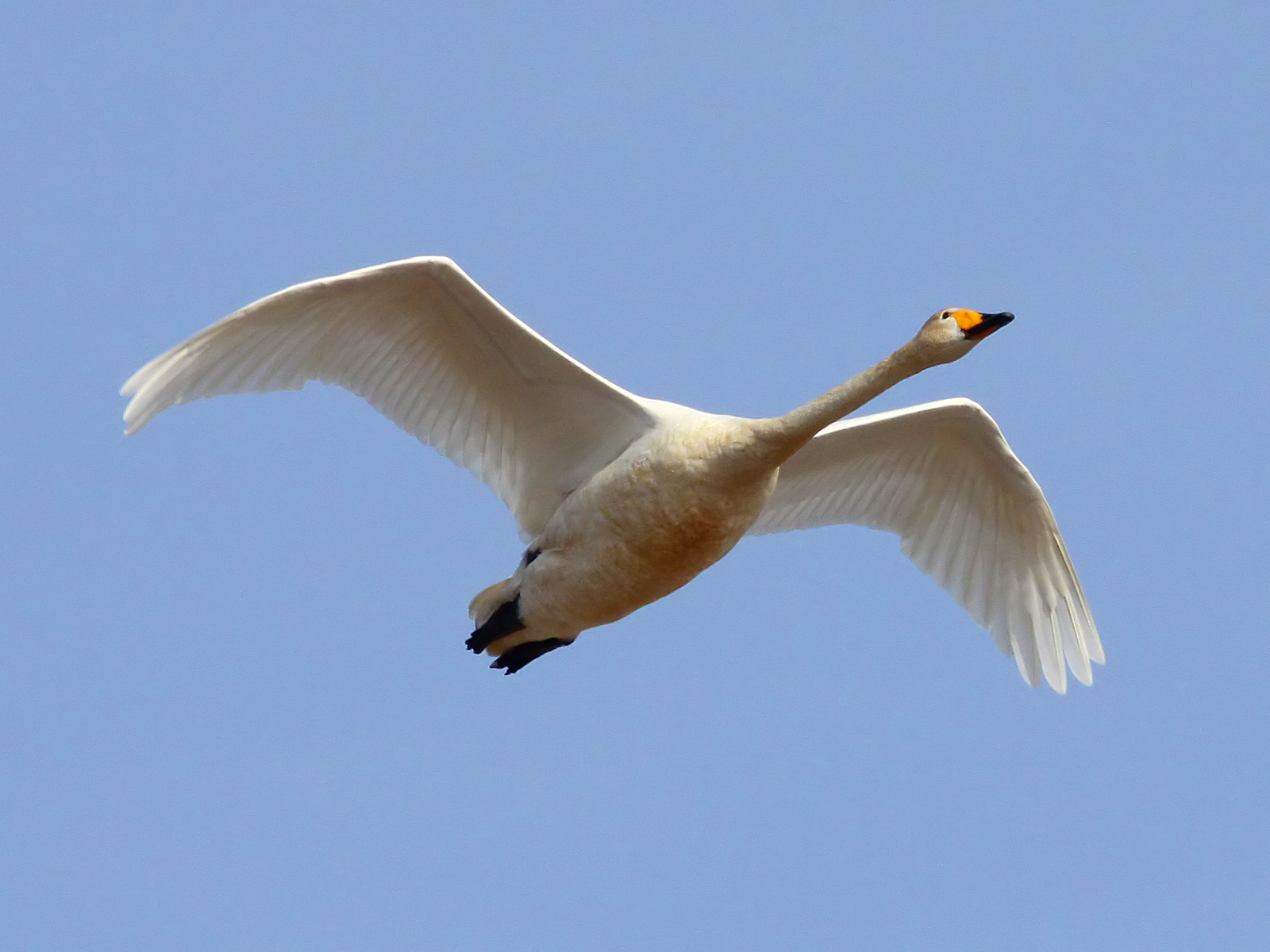 Whooper Swan (Cygnus cygnus)